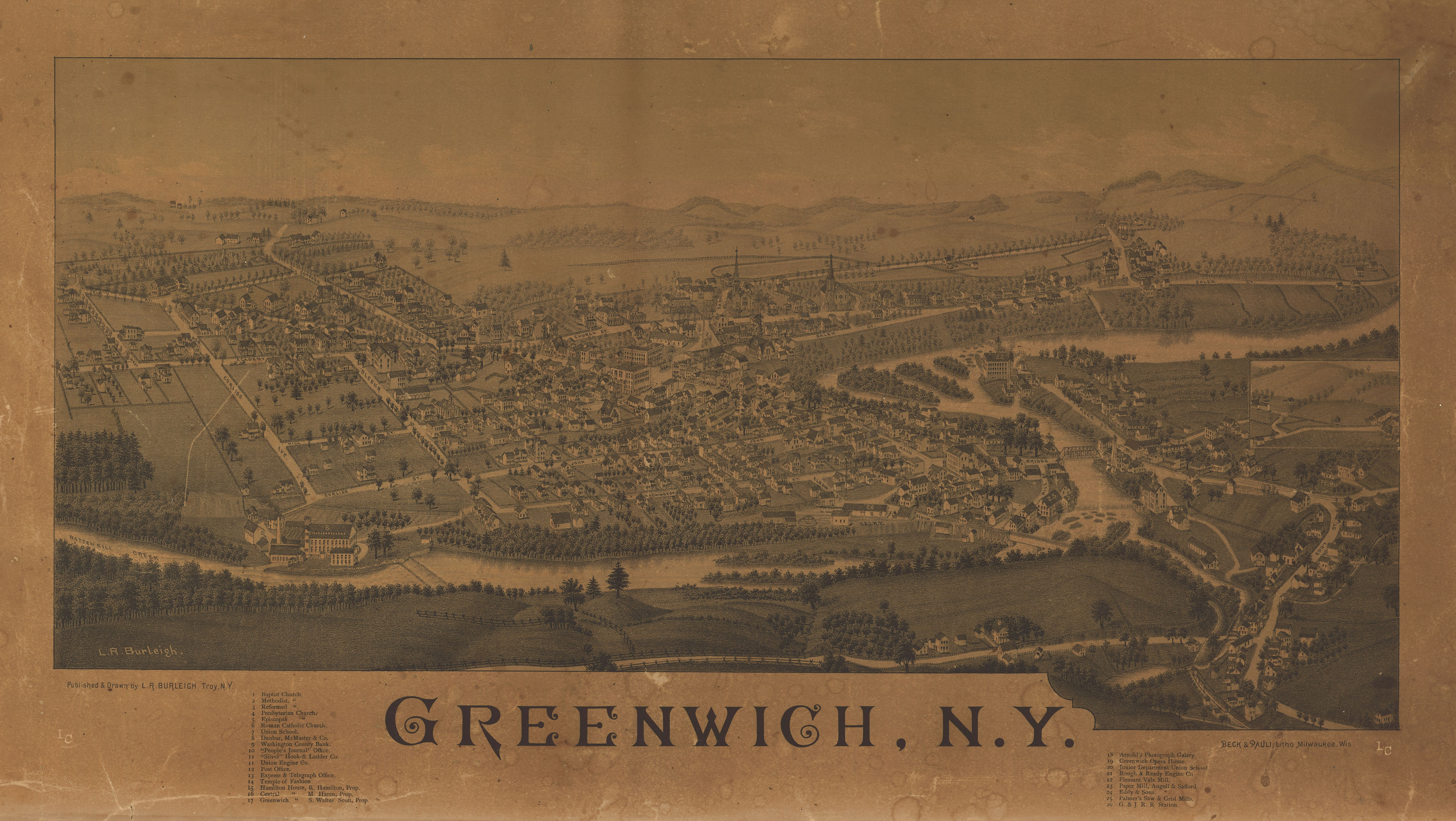 Bird's-eye view. Available also through the Library of Congress Web site as a raster image. Indexed for points of interest. LC copy darkened, stained, and cracked. DRM Acquisitions control no.: 6-89 PM3